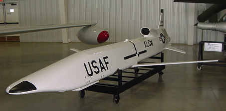 The Boeing AGM-86B and AGM-86C ALCM are sub-sonic air-launched cruise missiles (ALCMs) operated by the United States Air Force.